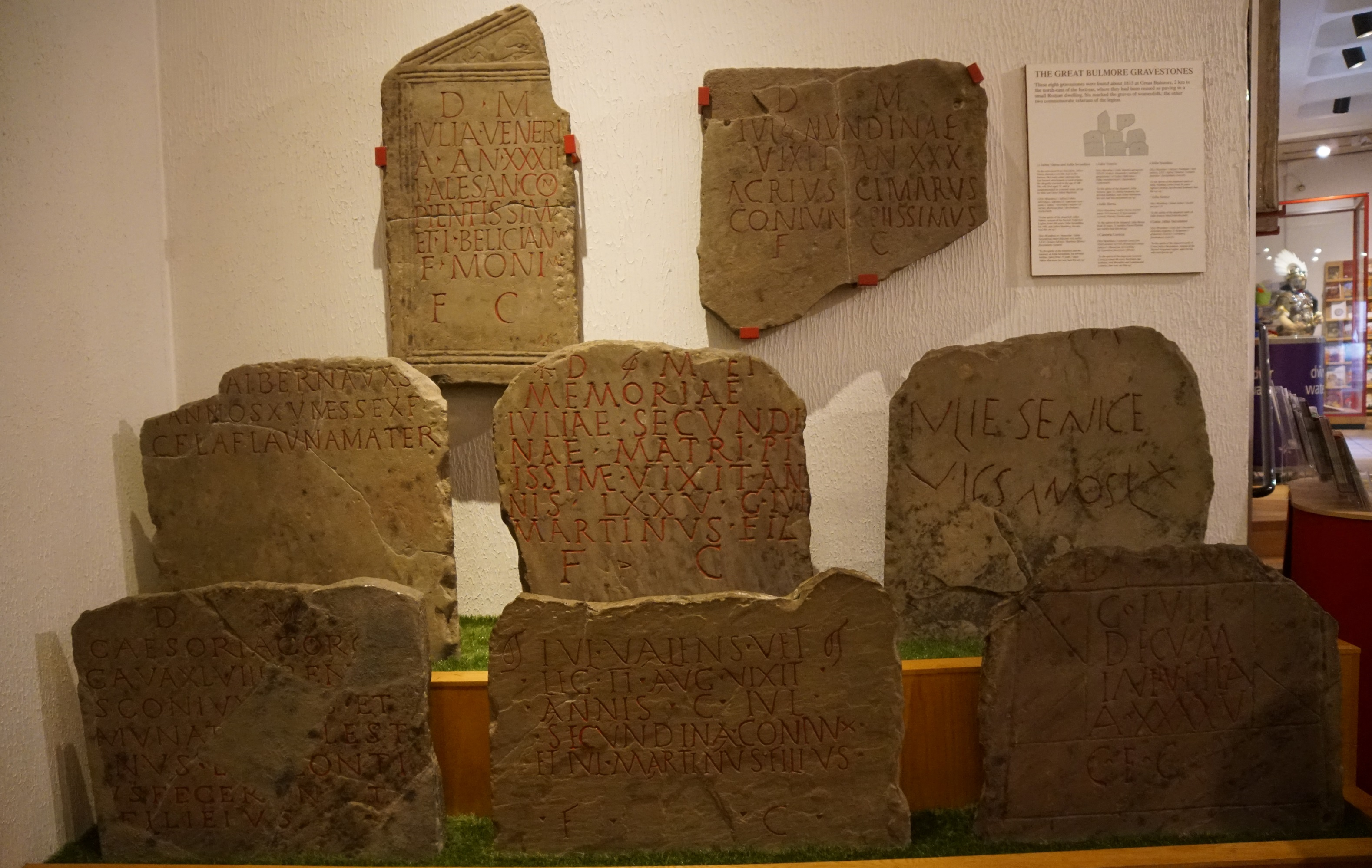 National Roman Legion Museum, Caerleon, Wales, United Kingdom. The Great Bulmore gravestones. These eight stones, found near Isca Augusta, commemorate six women (Julia Secundina, Julia Veneria, Julia Iberna, Caesoria Corocca, Julia Nundina, Julia Senica) and two veterans of the Second Augustan Legion (Julius Valens, Gaius Julius Decuminus).